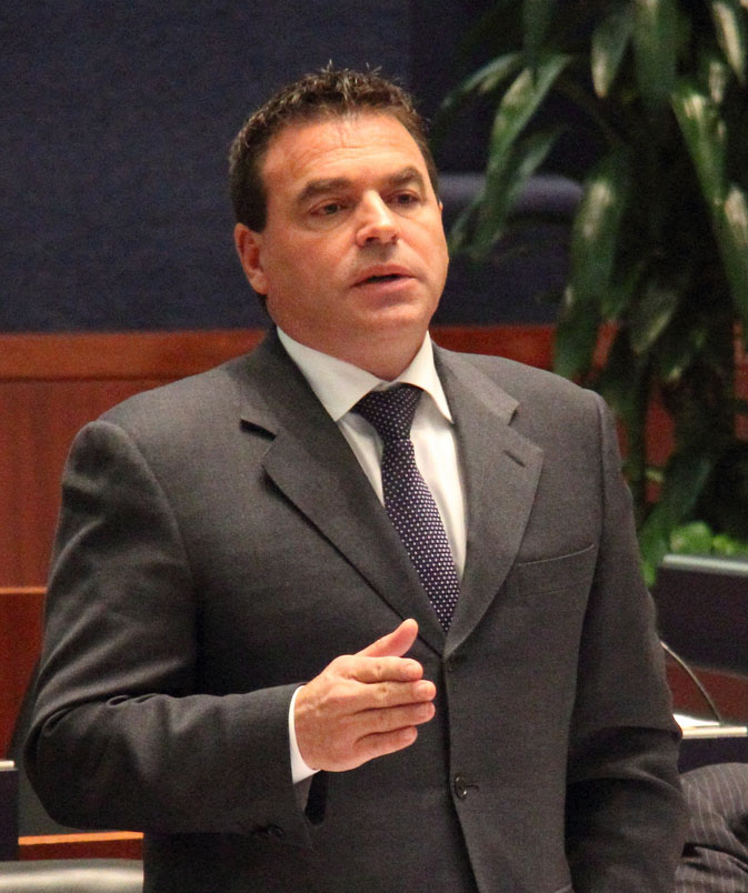 Toronto City Councillor Giorgio Mammoliti